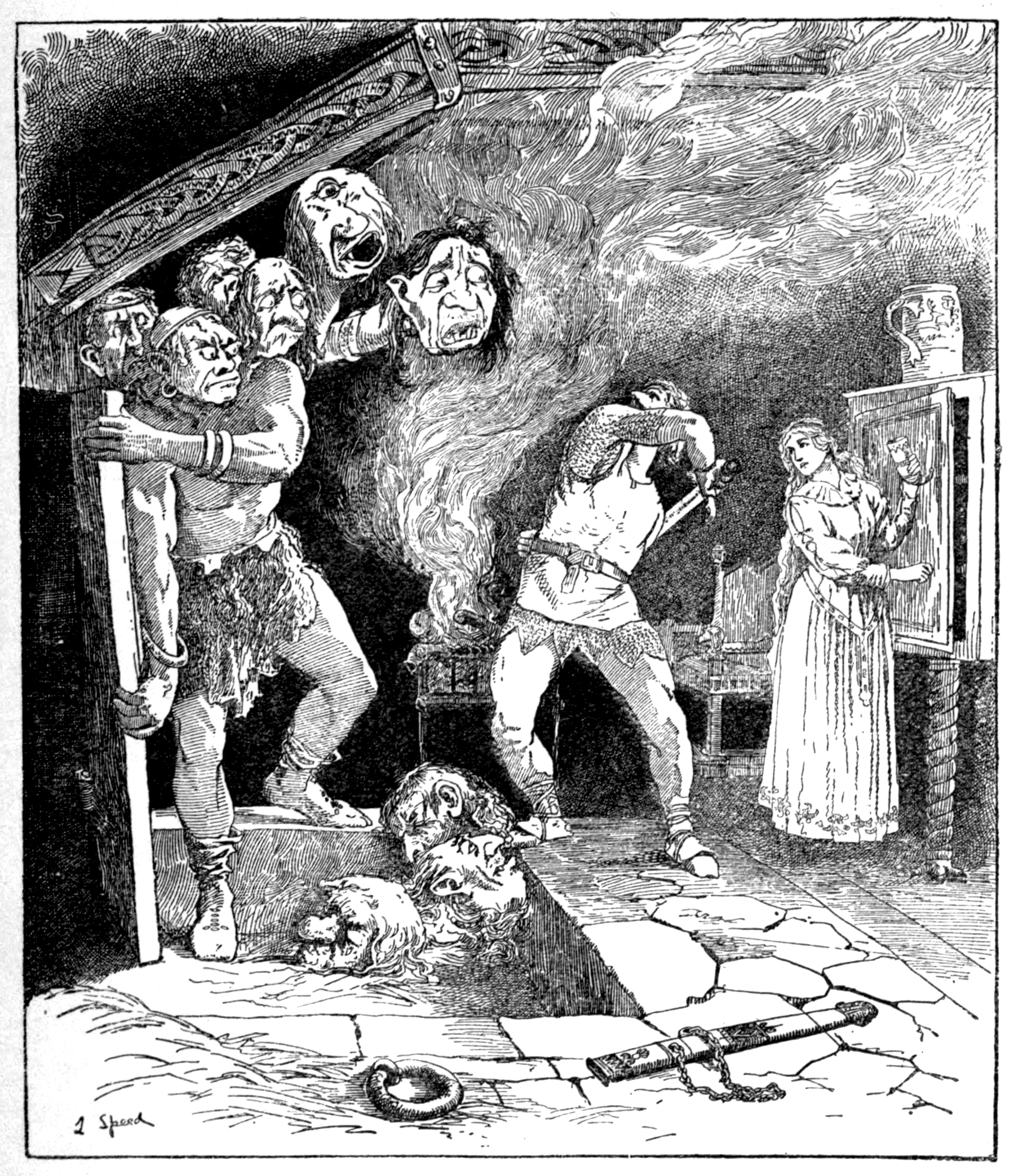 scan of illustration at title page in a book of fairy tales.